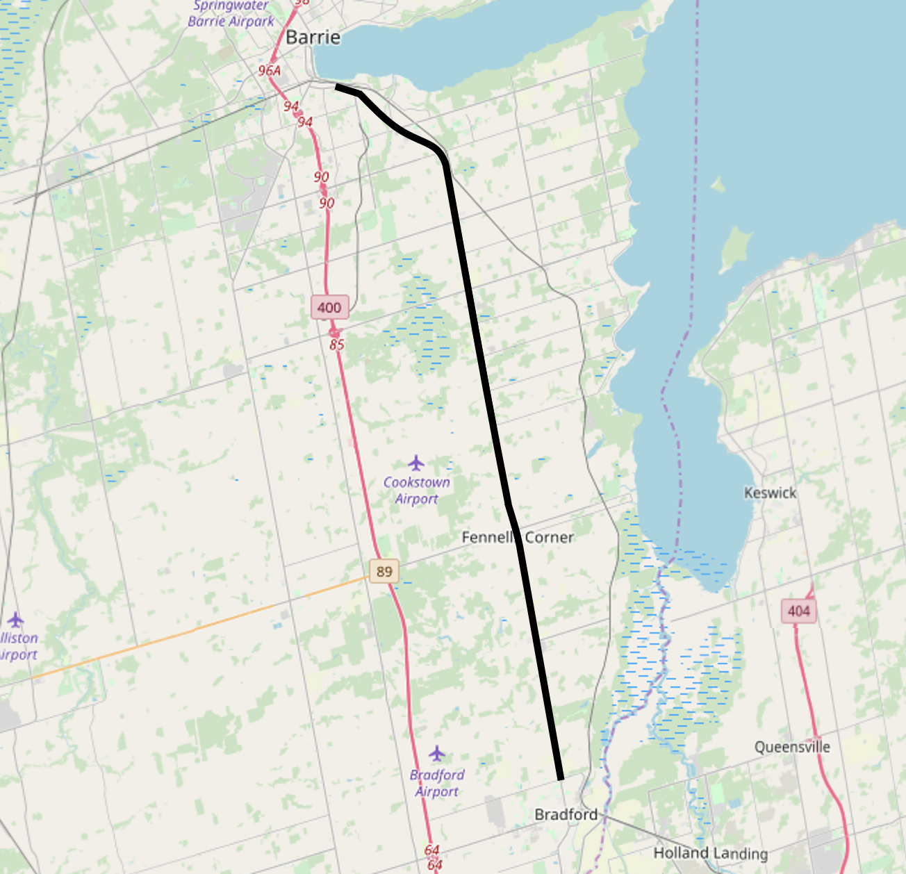 Yonge Street (Simcoe section)